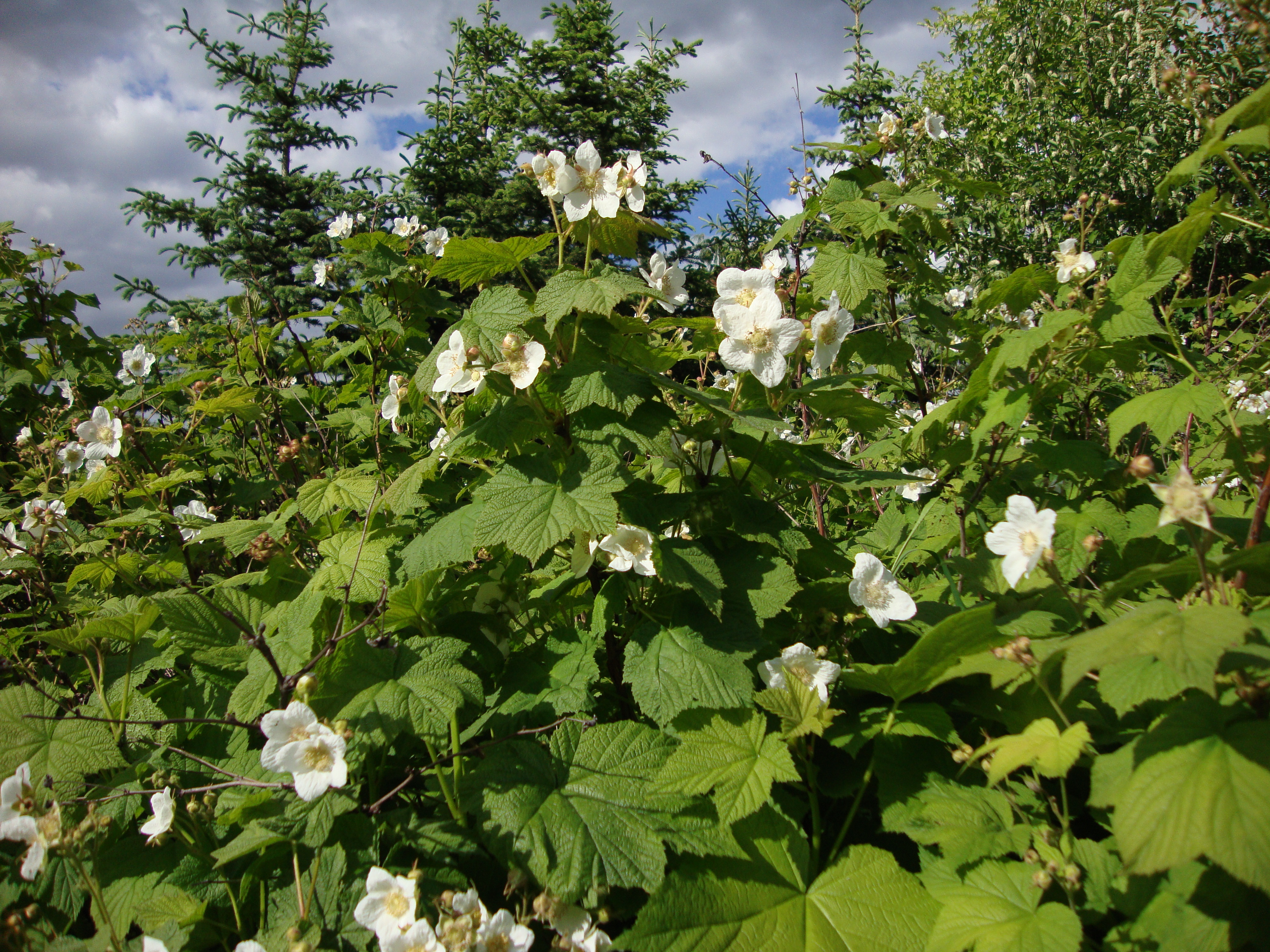 Thimbleberry (Rubus parviflorus) in Helsinki University Botanical Garden in Kumpula